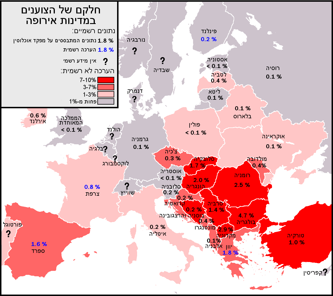 The sharing of Gypsies with Indo-Aryan origins in Europe